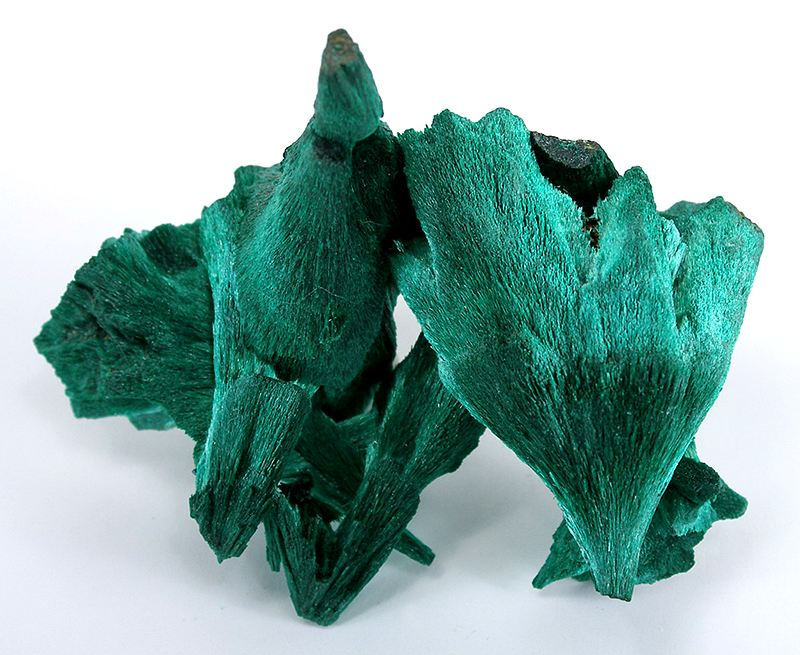 Malachite Locality: Kasompi Mine (Menda Mine; Kasompi Hill), Swambo, Central area, Katanga Copper Crescent, Katanga (Shaba), Democratic Republic of Congo (Zaïre) (Locality at ) Size: small cabinet, 7.3 x 4.9 x 4.6 cm Malachite (chatoyant) This is a sculptural specimen among my favorites that came out of a pocket last fall , showing some of the best chatoyancy we have seen in malachite since old Bisbee material of the early 1900s. It is EXTREMELY difficult to convey in photos how bright and metallic these crystals of primary malachite really are, that they shimmer and change in reflectivity as you turn the piece in the light. Most specimens from the find were big and clunky, or small and clunky I suppose. I chose a few which to me had a certain elegance of composition, and this sculptural look enhances the play of light across the crystal sprays. Even in a showcase, static and unmoving, you can see the catseye-like effect as you move to look at the piece from different angles. I know it is "just malachite" to some people, but I can say I have handled thousands of malachites and rarely do I get excited. Most African material is, these days, considered "decorator level," but this pocket I think will be remembered as something that transcended the norm.